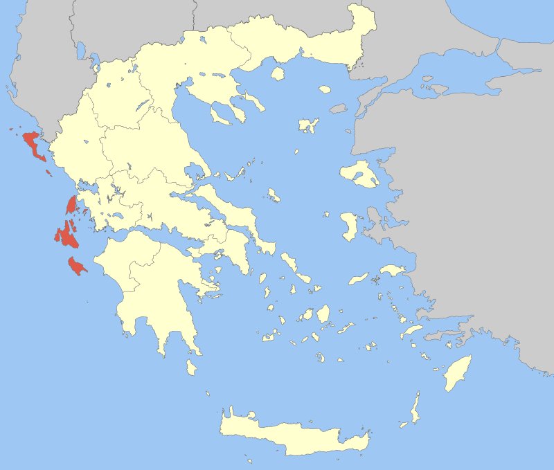 Locator Map of Ionian Islands Periphery, Greece